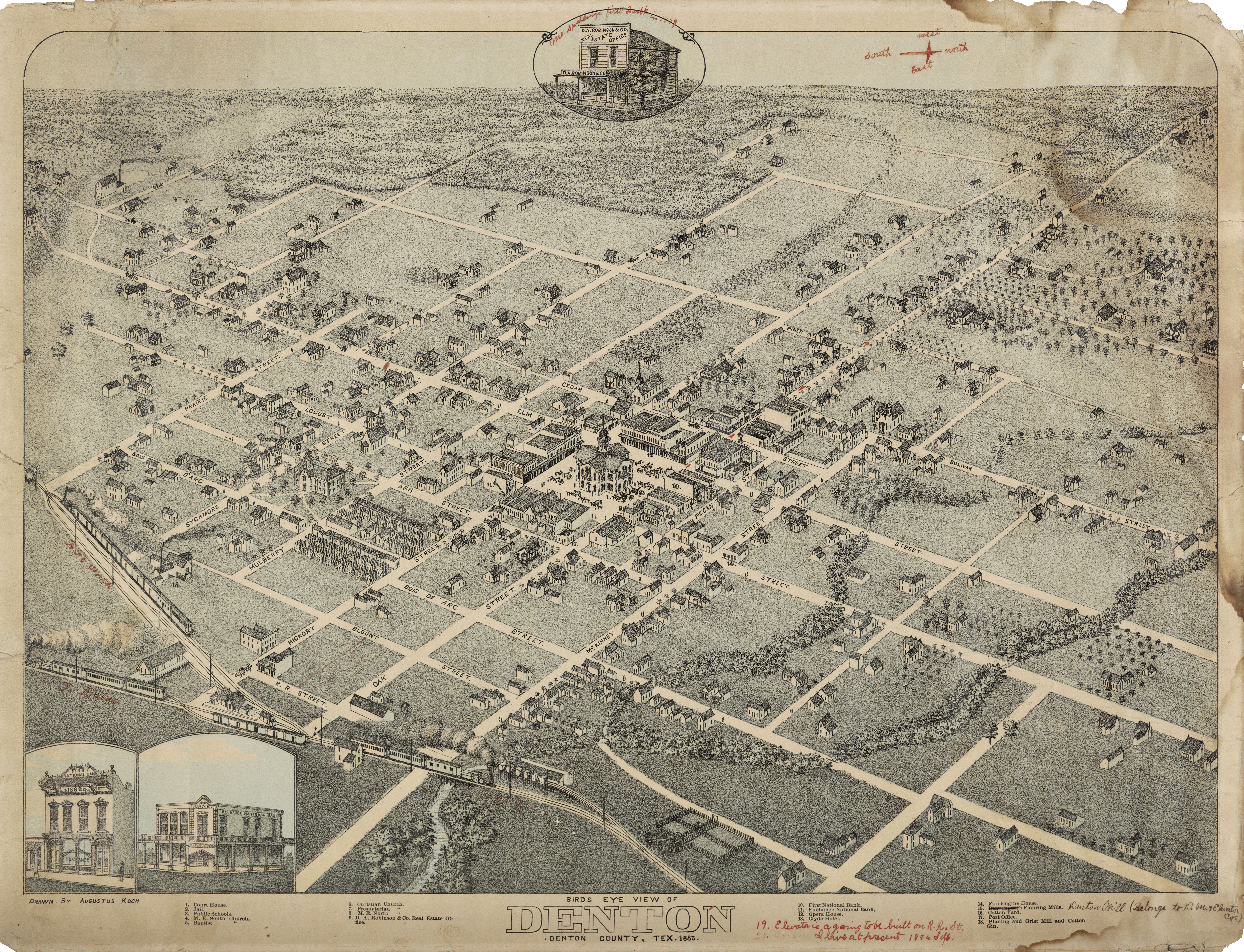 Bird’s Eye View of Denton Denton County, Tex. 1883. Tinted lithograph, 17.7 x 23.7 in. Lithographer unknown. Denton Public Library.